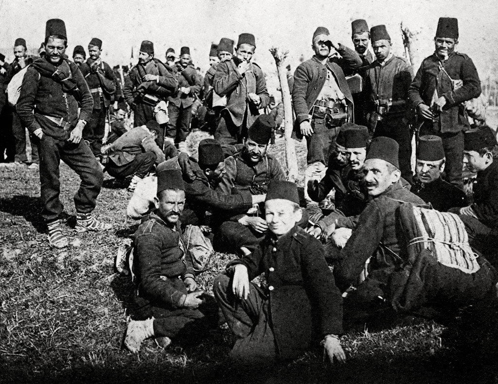 Ottoman militia and redif troops at rest, 1912, location: unknown